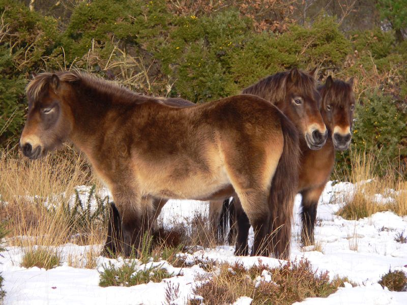 Exmoor ponies in snow